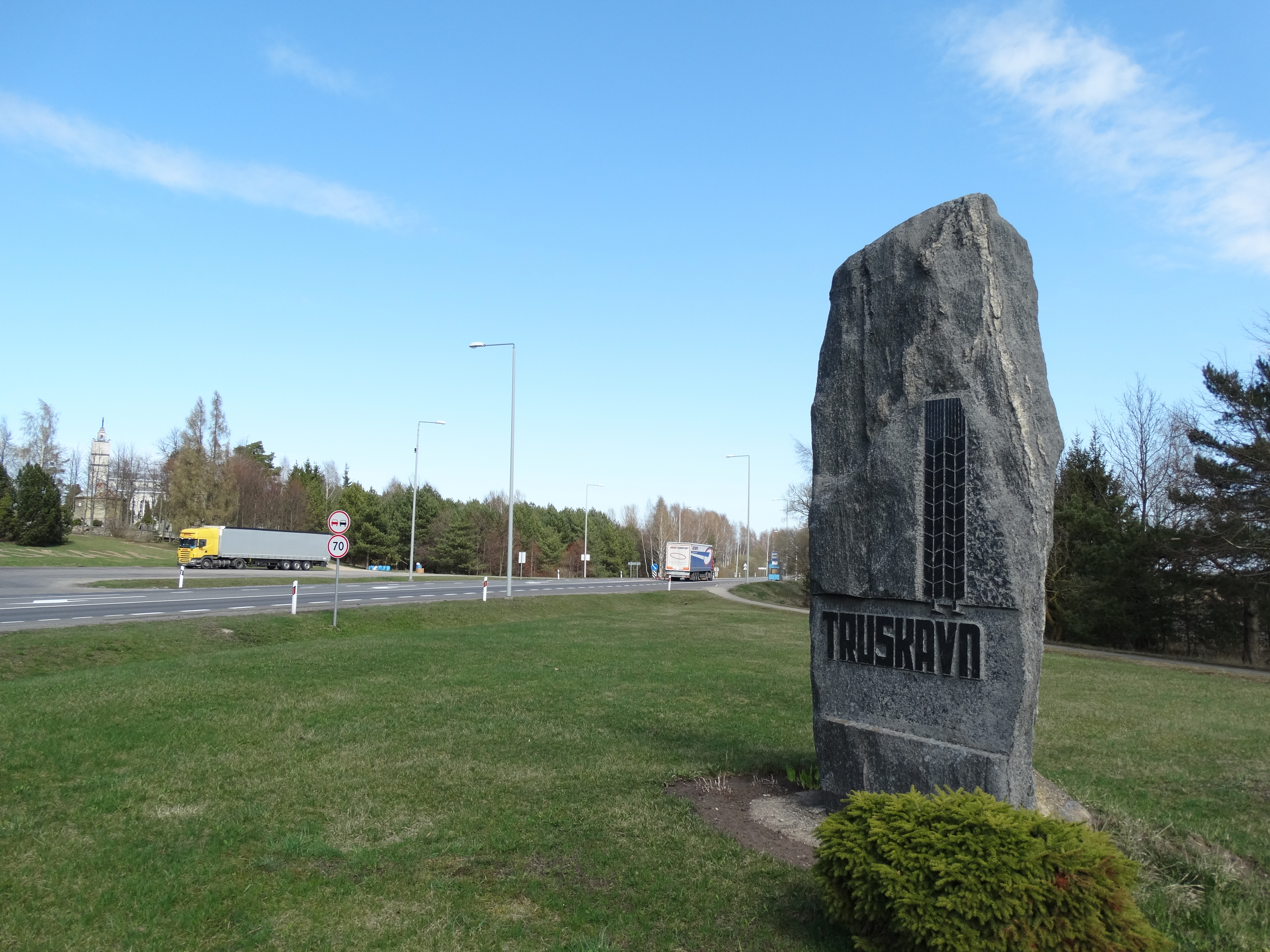 Stone, Truskava, Kėdainiai District, Lithuania